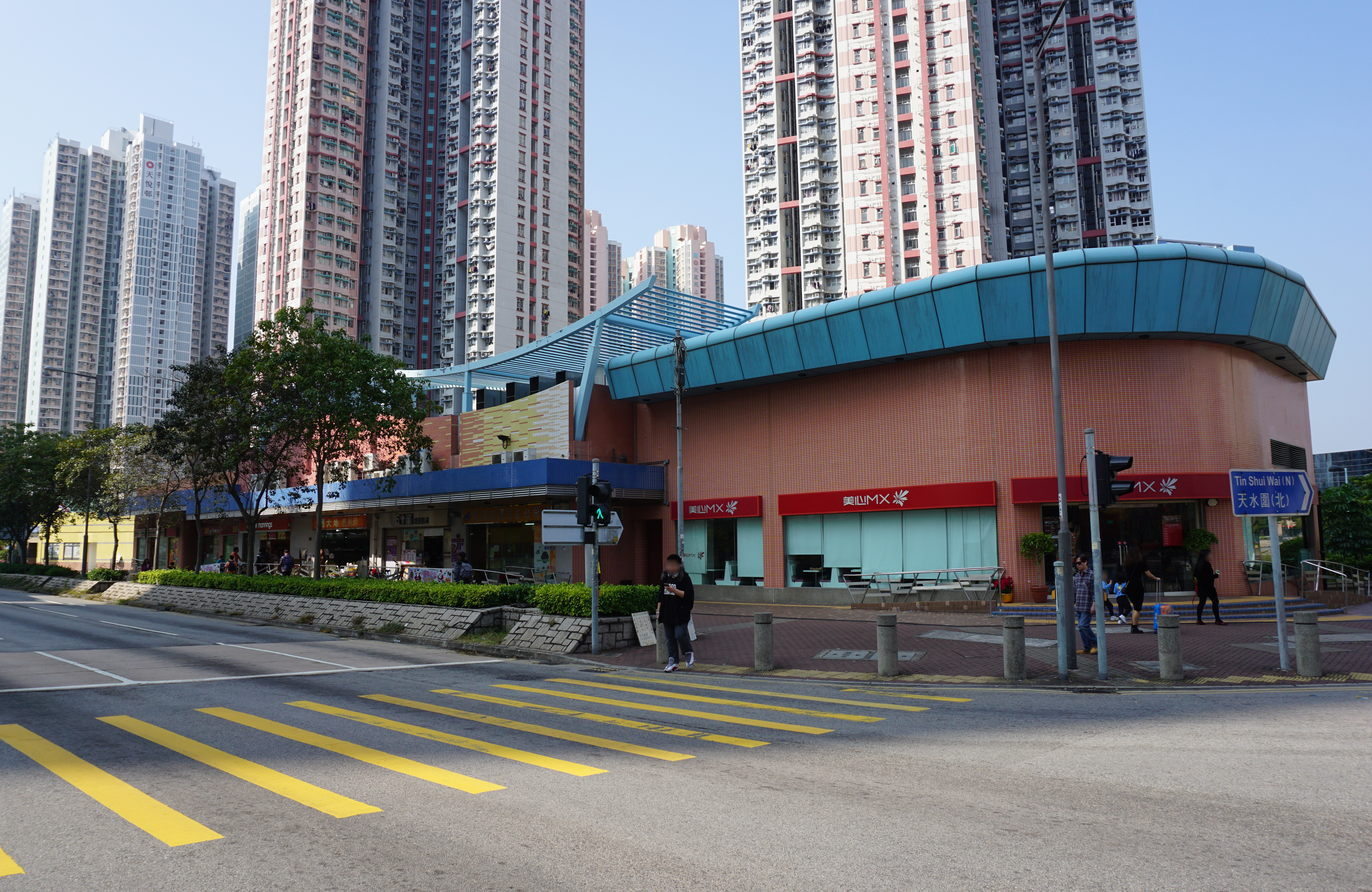 Tin Ching Shopping Centre in Tin Shui Wai, Hong Kong.